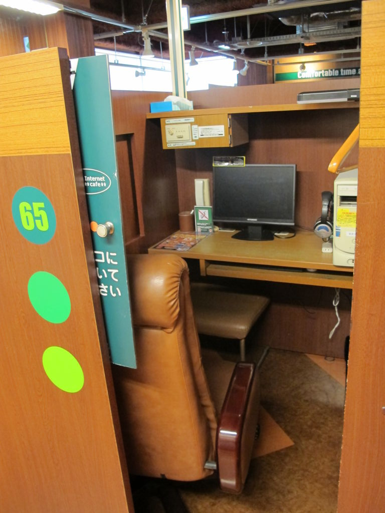 PC Booth